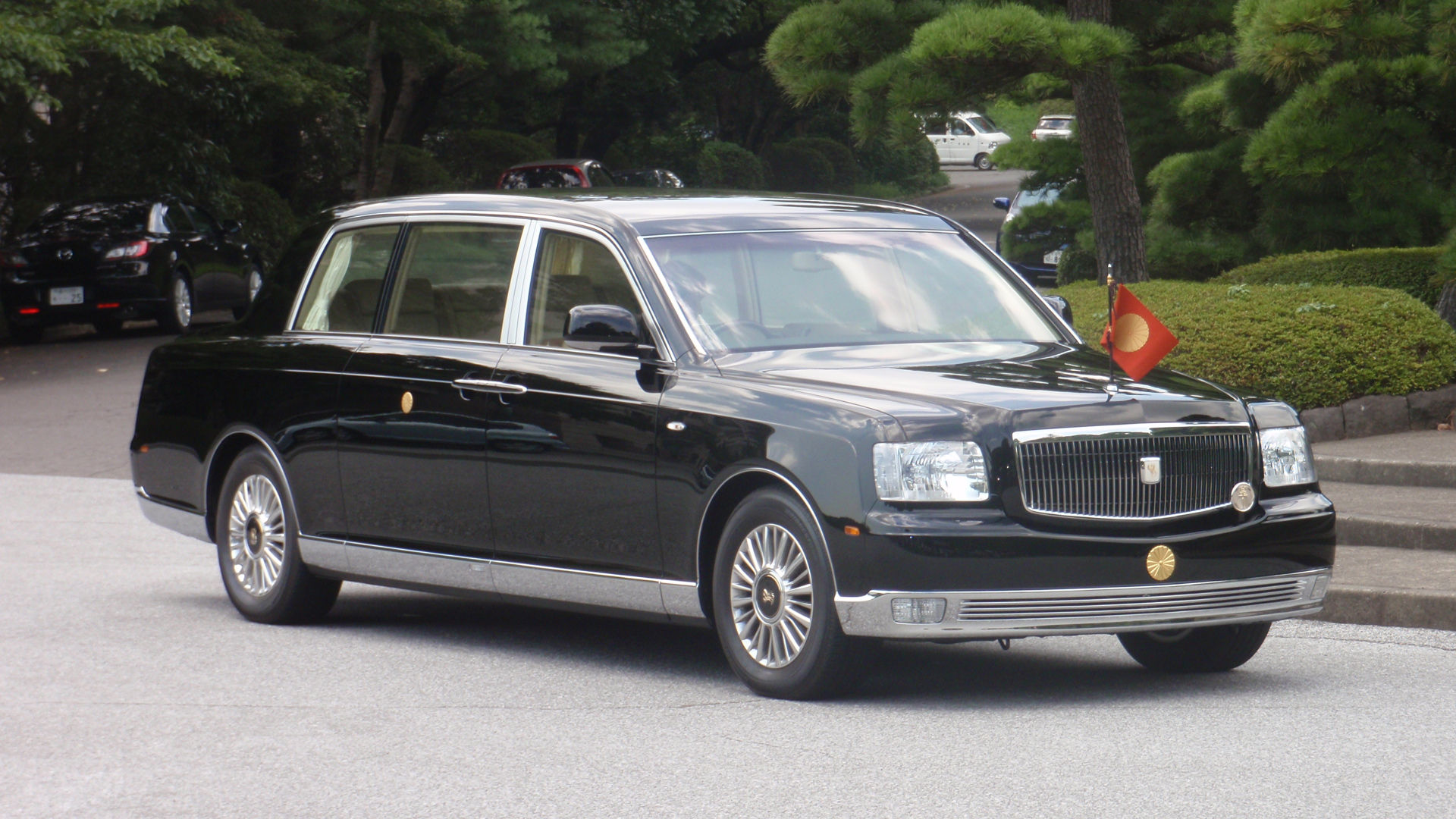 Imperial Processional Car (Toyota Century Royal)